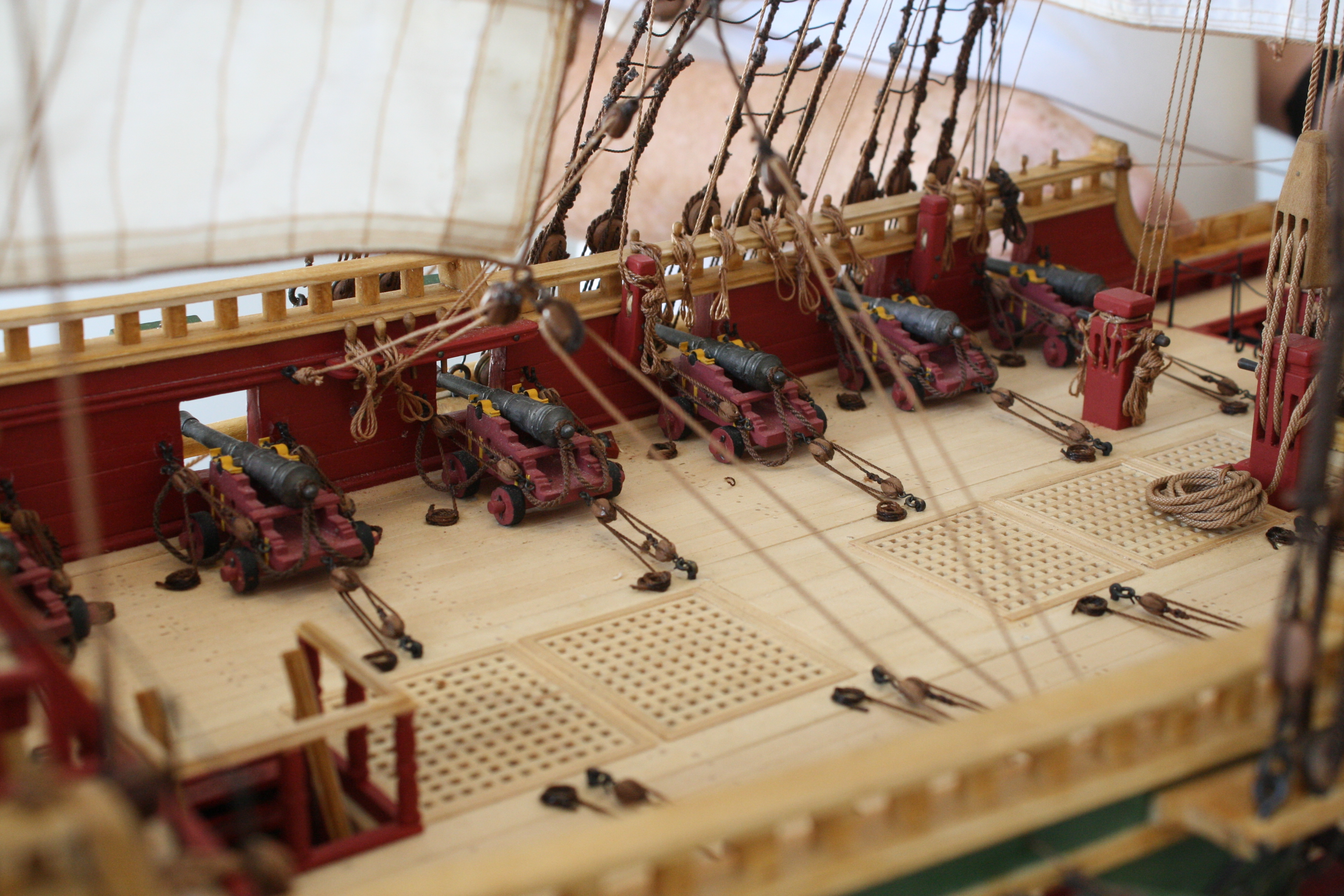 View of the upper deck of the Dannebroge, showing some of her guns.